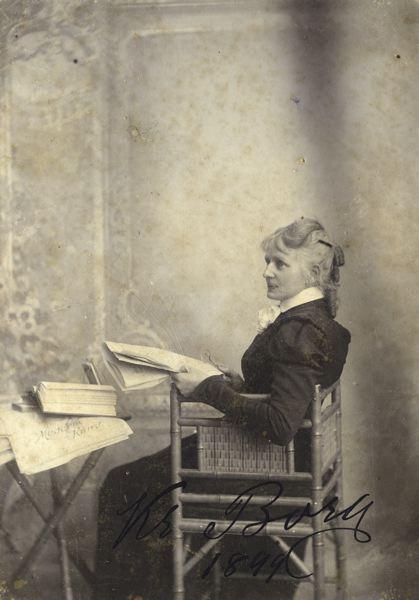 Kristina Borg is photographed by Alfred B. Nilson in 1899. She signed the photograph with her name and the year 1899. The photograph is from the collections of Helsingborgs museer.